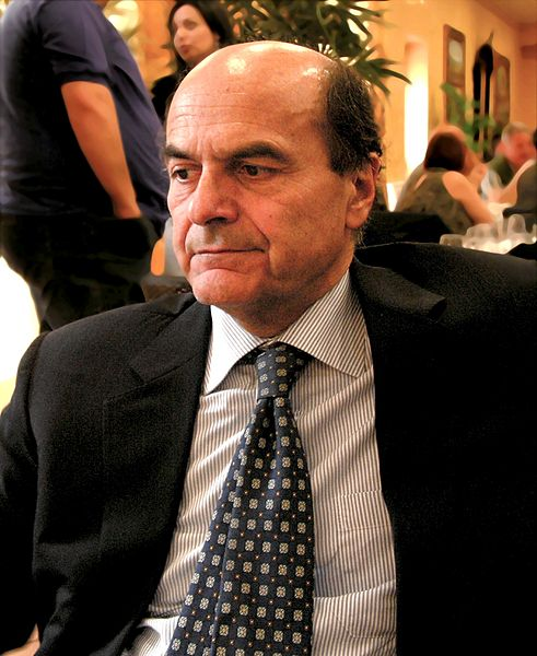 Pier Luigi Bersani in Agrigento